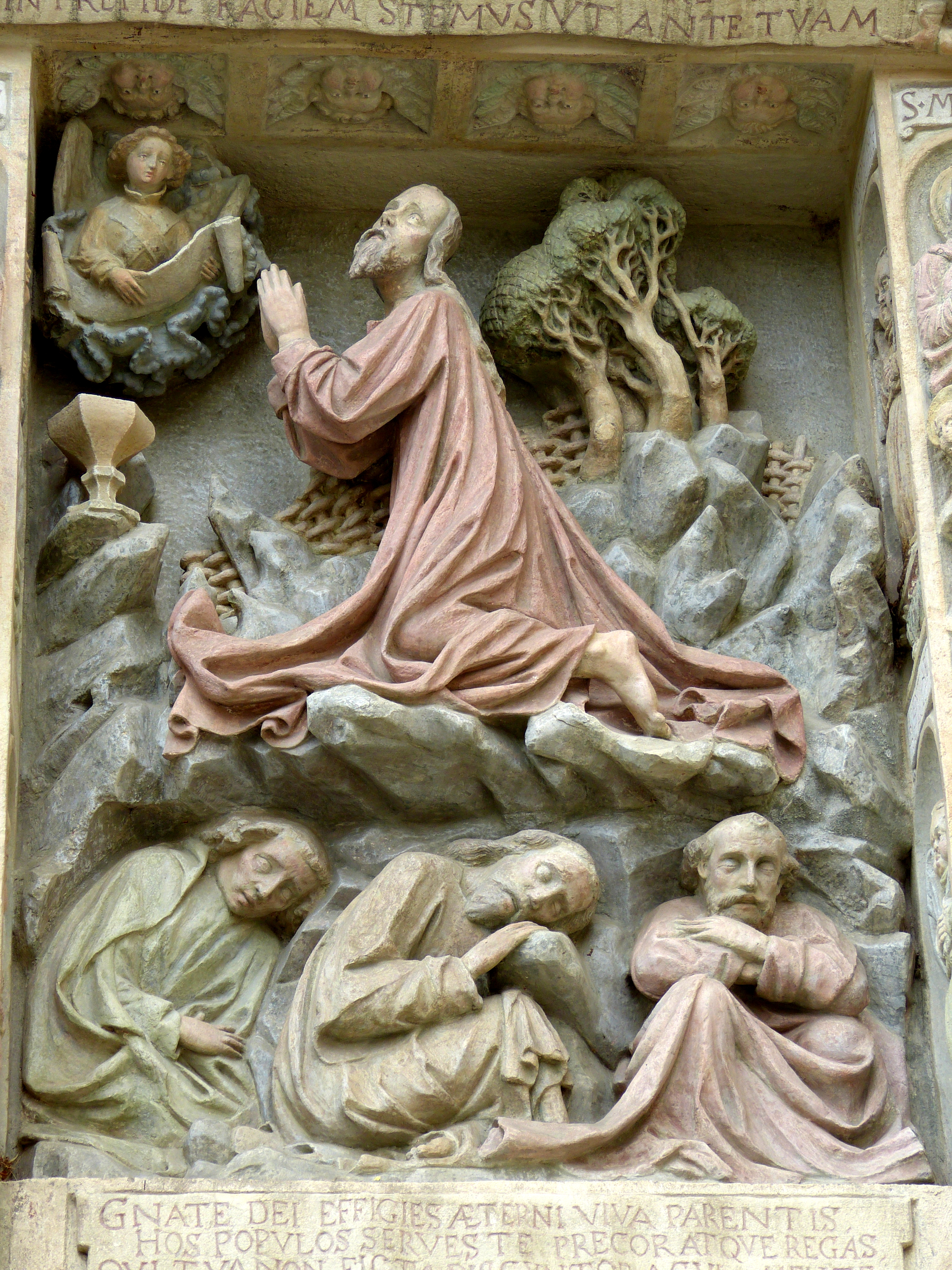 Eggenburg ( Lower Austria ). Saint Stephen parish church: Epitaph for parish priest Johann Faber ( 1582 ) - Detail: Christ on the Mount of Olives ( 15th century ).